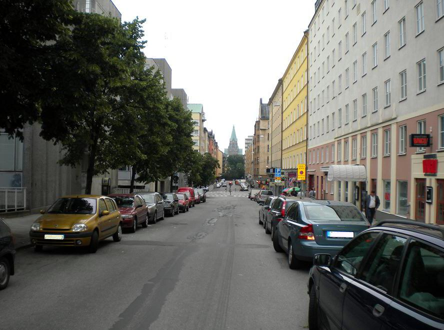 Blekingegatan from a block west of Götgatan looking eastward with Sofia Church at the endPlace: Stockholm, Sweden